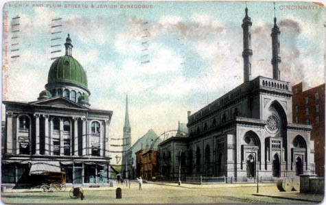 Postcard from the beginning of the 20th century showing the Plum street Temple (now: Isaac M. Wise Temple)together with the St. Paul Episcopal Cathedral.